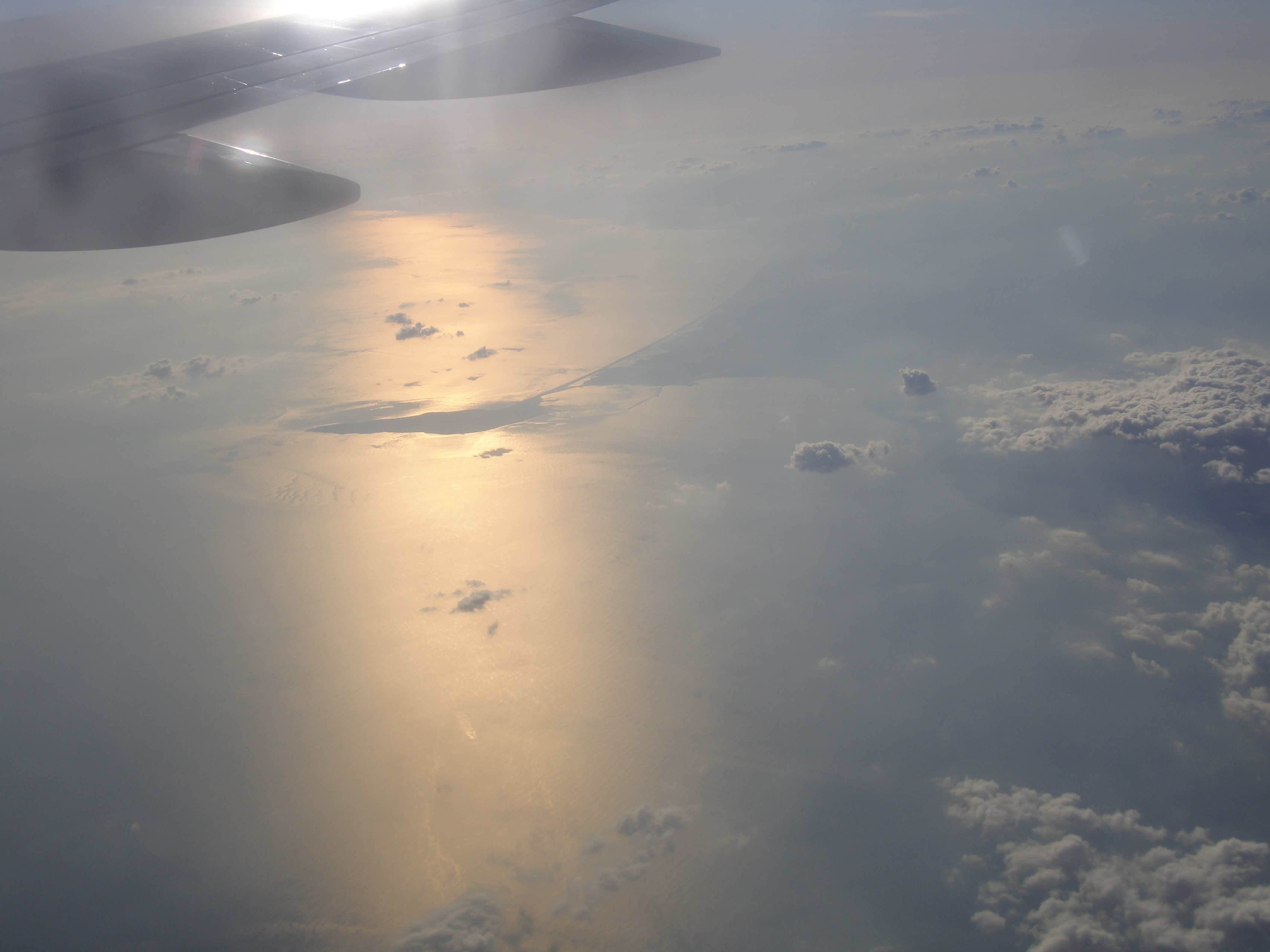 Photograph of Portland Bill and Chesil Beach, Dorset, England, from the air.